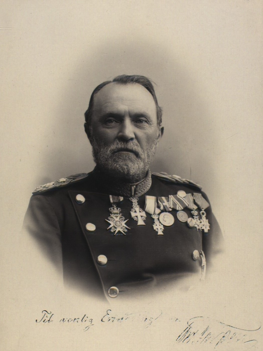 Christian Frederik Frands Elias Tuxen (1837-1903), Major General of the Royal Danish Army and Minister of War